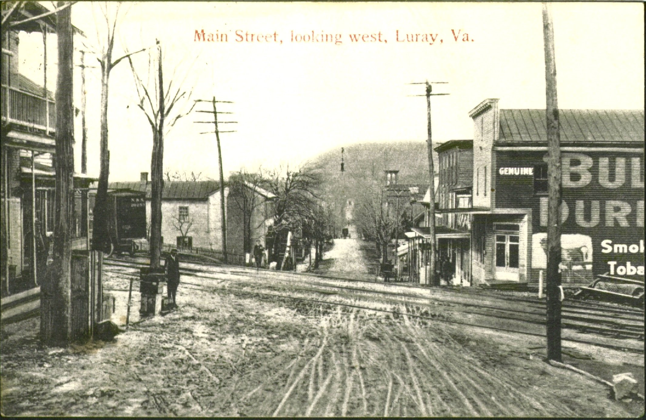 This image is from the 1910s Almost 100 years ago. Which of the other current images looks the most like it? "@V@"